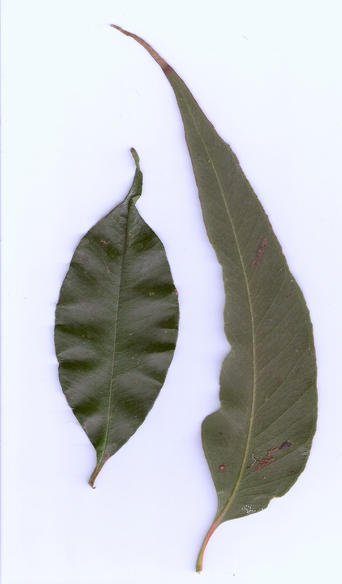 leaves of Acmena smithii (roundish) and Eucalyptus acmenoides (long). Eastwood, NSW, Australia